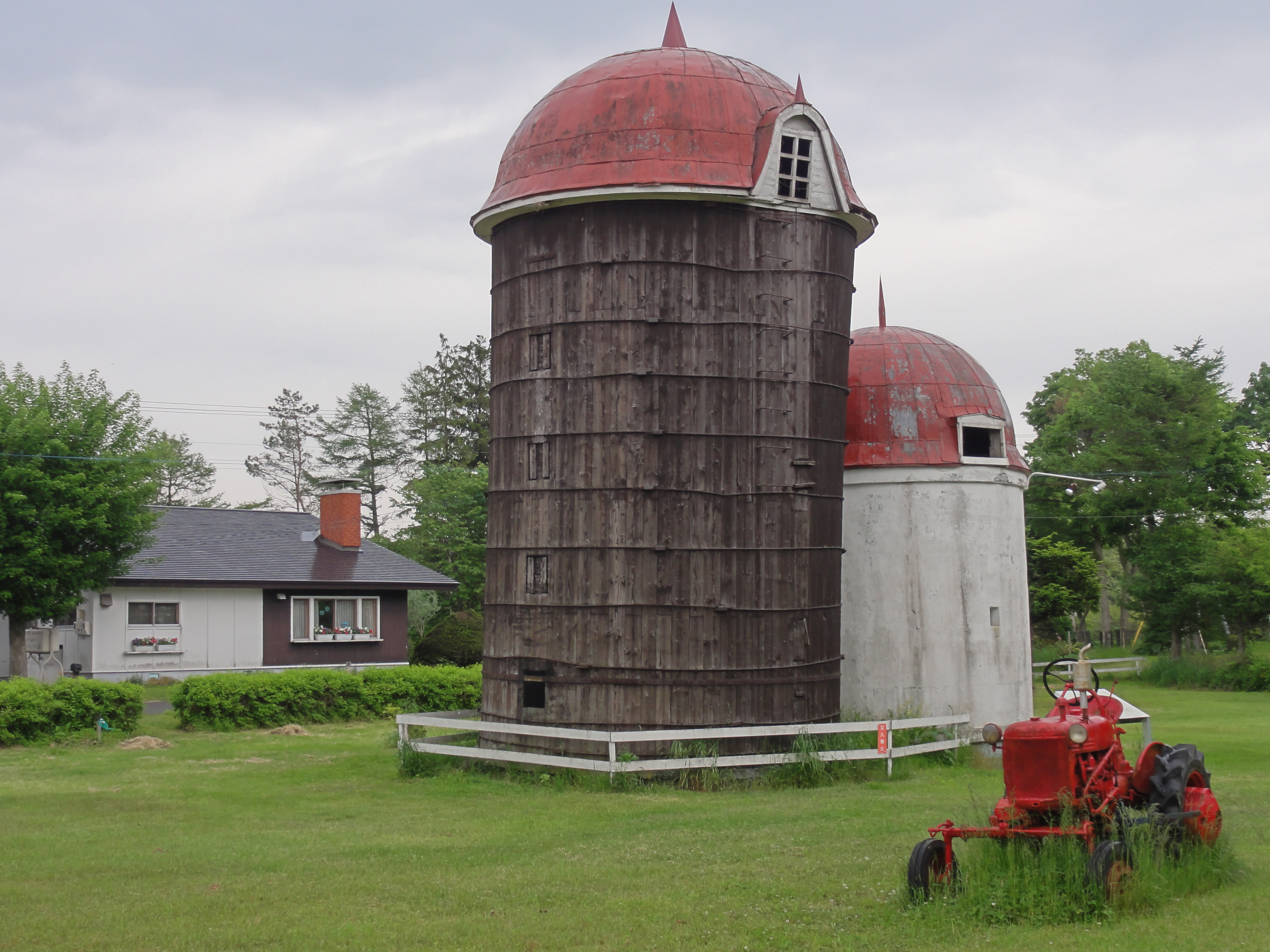 Wooden silo,Hokkaido prefecture,Japan